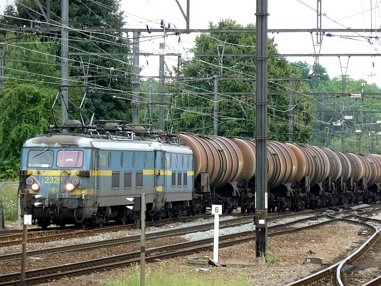 Tanker Train in Gembloux, Belgium. This train runs between the Shell distribution center in Luxemburg and the Feluy oil refinery. Gembloux is not on the shortest path, but due to undercapacity between Namur and Ronet, the train runs from Luxemburg to Gembloux (Lines 161 and 162), and then turns back to Jemeppe-sur-Sambre and Feluy via Lines 144 and 130